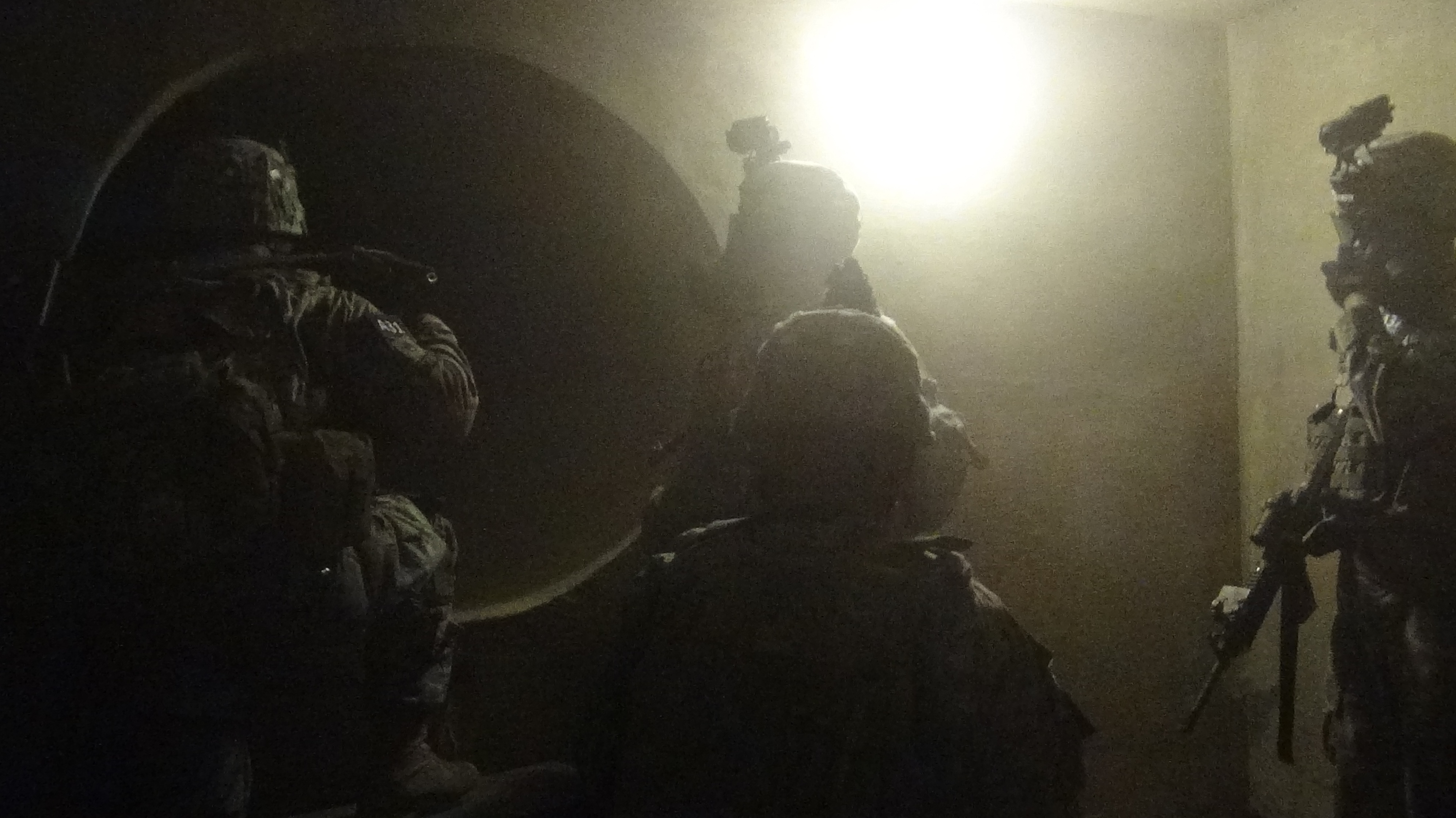 Soldiers from Company B, 1st Battalion, 6th Infantry Regiment, 2nd Brigade Combat Team, 1st Armored Division of the Brigade Modernization Command participate in the U.S. Army Asymmetric Warfare Group’s Subterranean Risk Reduction Exercise Sept. 3-14 here and at the Center for National Response in Gallagher, W.Va. During the exercise, the BMC soldiers were placed in various scenarios that included operating in underground and confined spaces, areas of limited visibility, breaching obstacles, close quarter drills and how to best use various Army organizations and assets as enablers for a mission set. The AWG conducted the exercise in order to prepare the soldiers for their upcoming participation in a subterranean assessment at the Network Integration Evaluation 14.1 scheduled for November. AWG’s end state for conducting the Risk Reduction Exercise and its upcoming participation in NIE 14.1 is to develop technique solutions to capability gaps with respect to subterranean operations and to ultimately develop an Army Techniques Publication on subterranean warfare for the force.